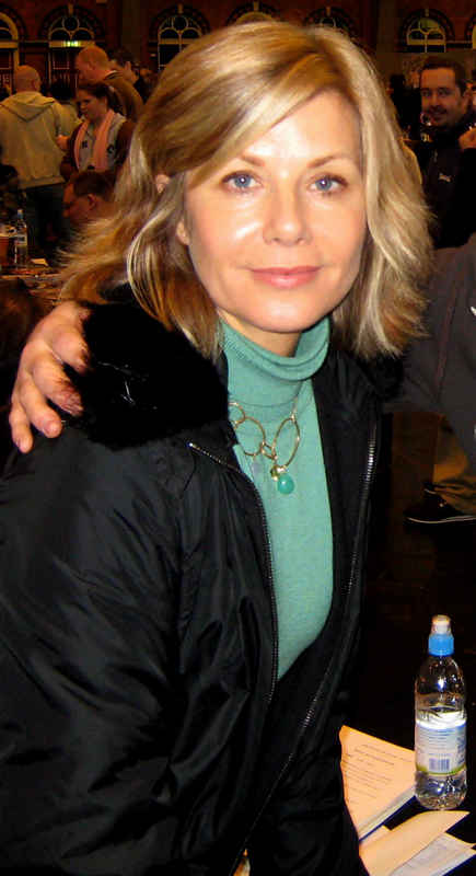 Glynis Barber signing autographs @ 2007 Manchester Collectormania